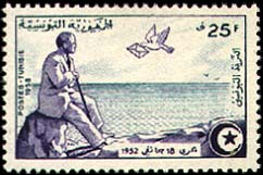 6th_Anniversary_of_Bourguiba_s_exile_to_La_Galite_-_Stamp